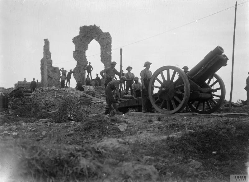 IWM caption : THE BATTLE OF PASSCHENDAELE, JULY-NOVEMBER 1917. A 6-inch howitzer of the Royal Garrison Artillery ready for firing in the ruins of Pilckem, 23rd August 1917.